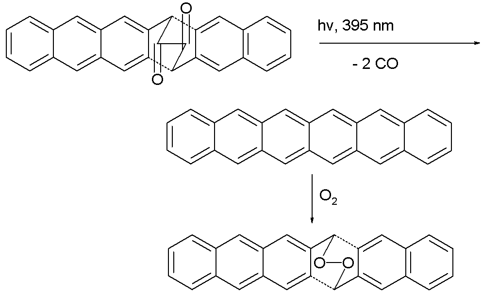 Hexacene Synthesis